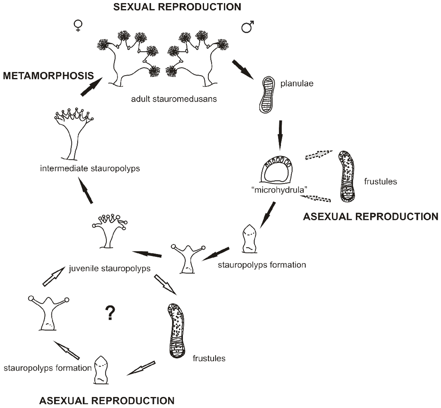 Putative scheme of the life cycle of H. antarcticus, including the “microhydrula” phase. The main life cycle was based on the lifecyle of H. octoradiatus. Stauropolyp stage and its ability to create frustules (white arrows) are hypothesized based on observations of Stylocoronella. Dotted gray arrows corresponding to the “microhydrula” stage, derived from this study.